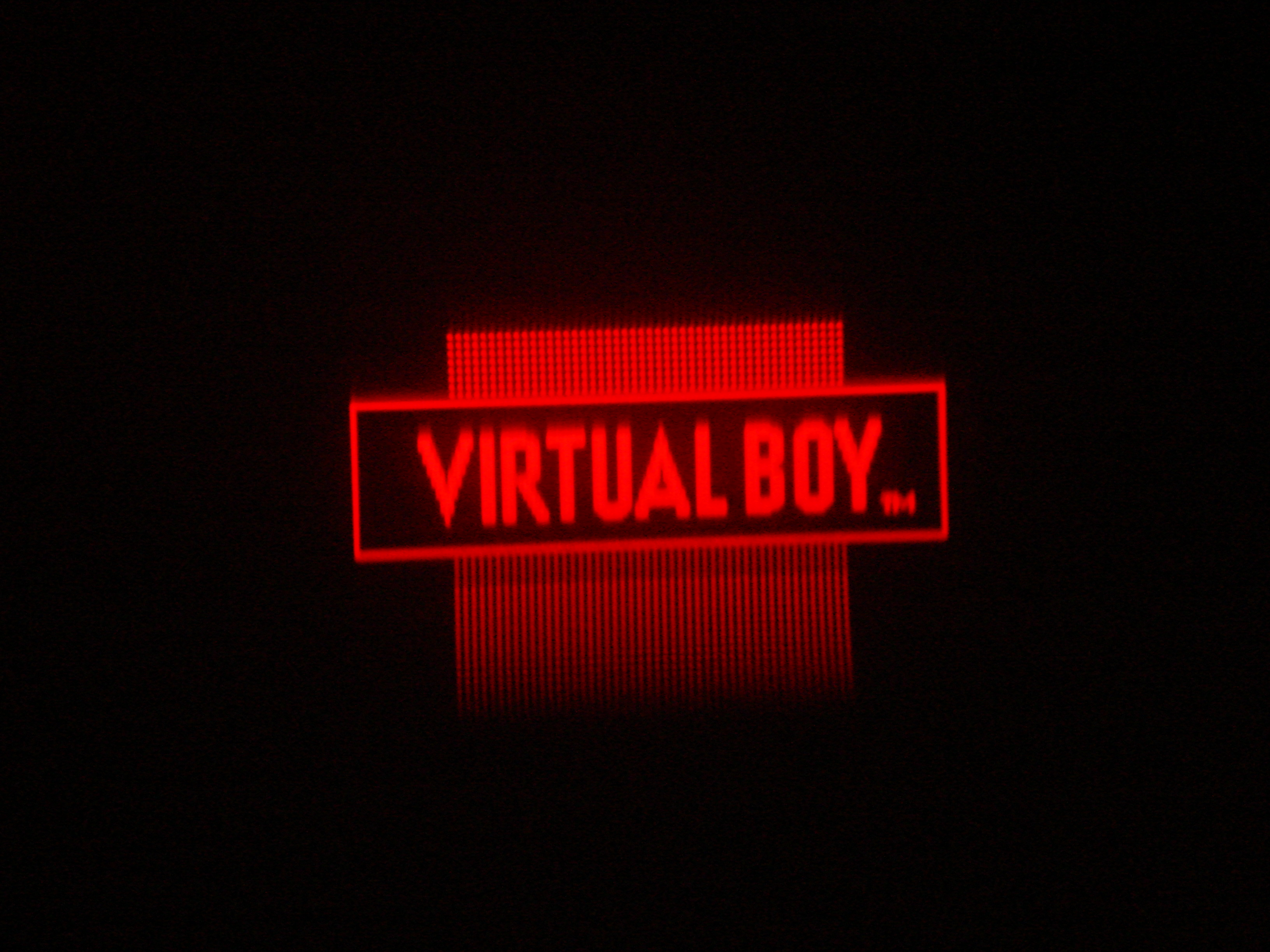 Looking in the Virtual Boy left eye piece.